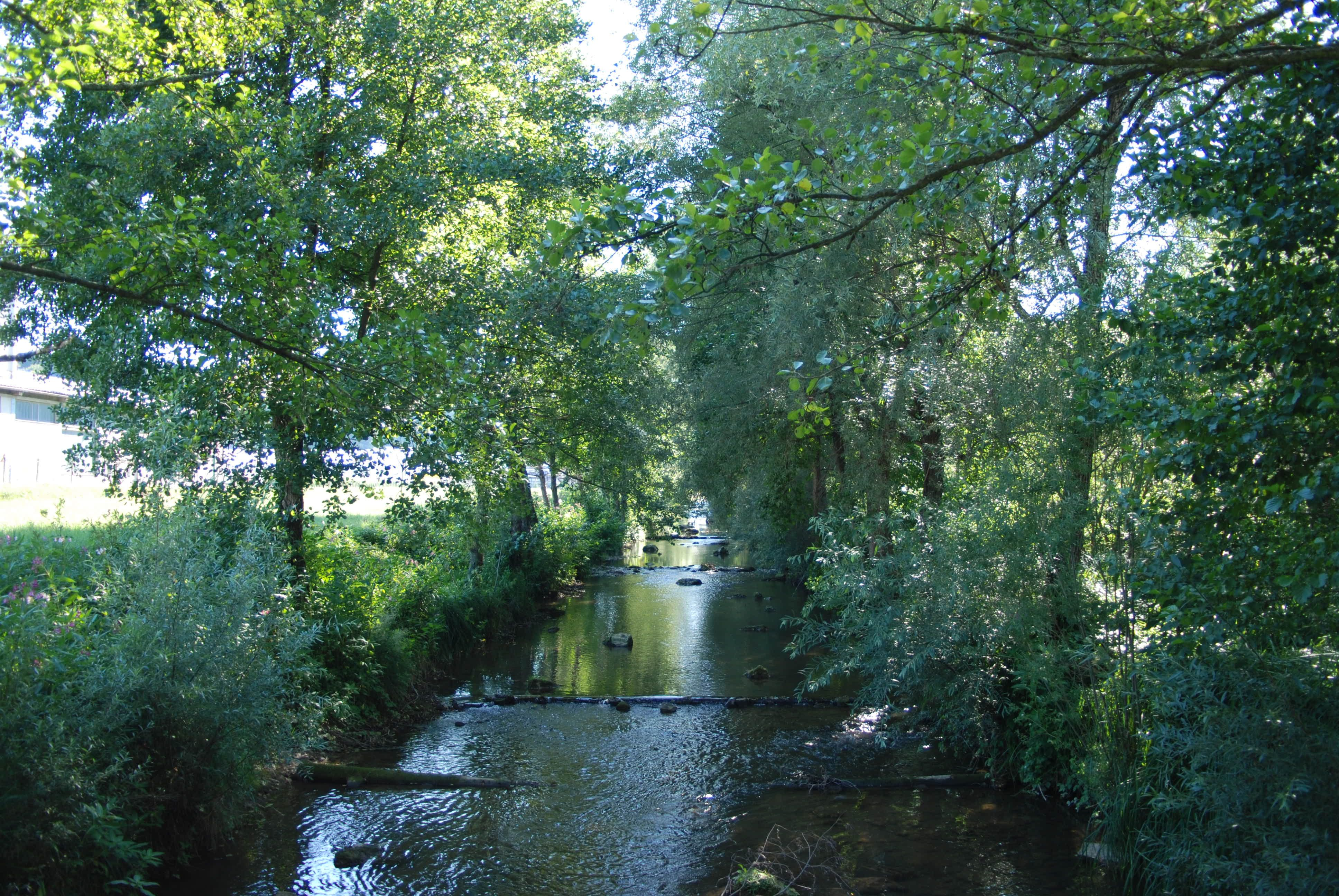 The Mirna River at the Dana factory (left bank) and the Greda factory (right bank). Upstream photo. Mirna, Slovenia.